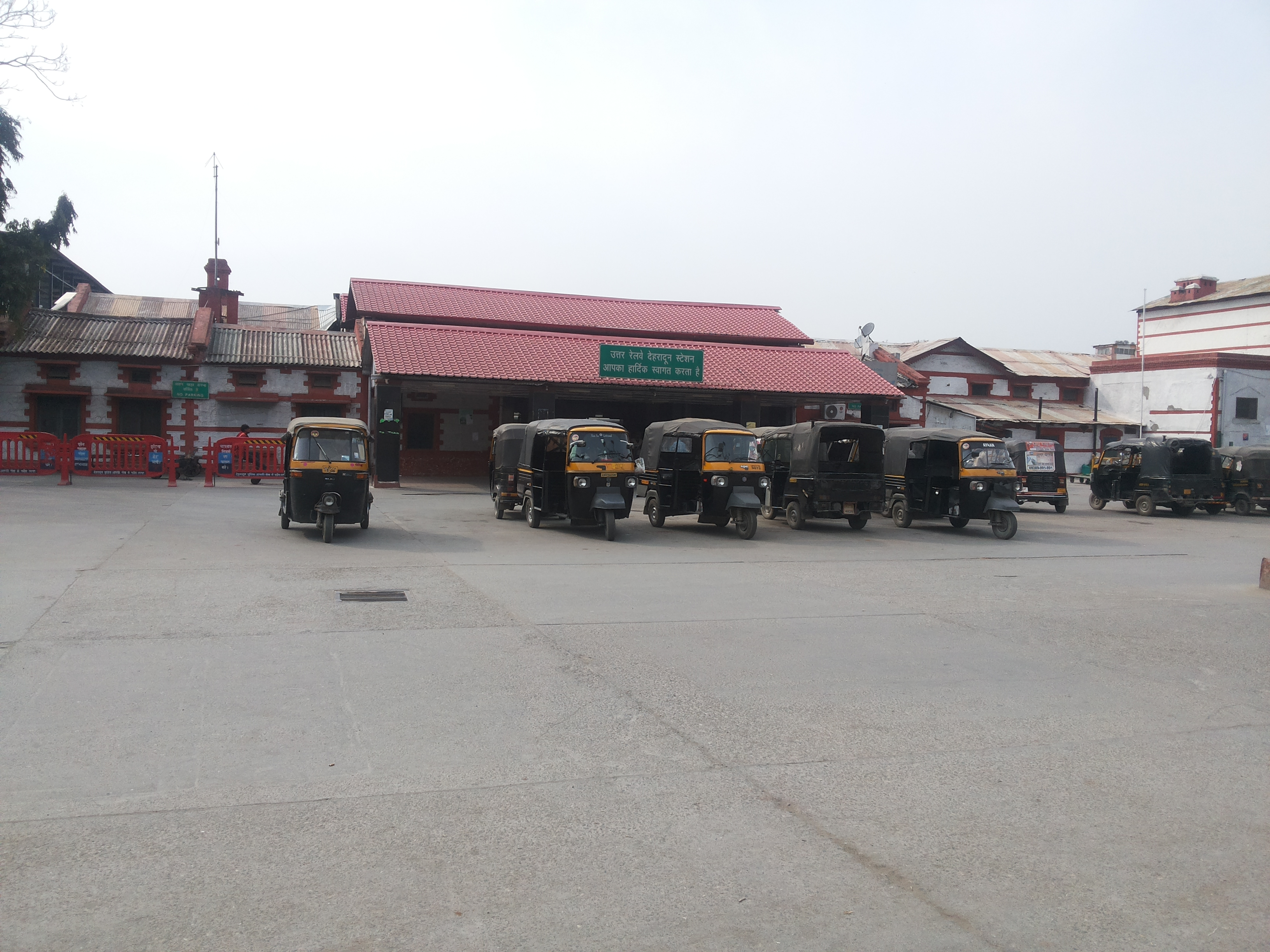 The image is of Dehradun City Railway Station taken from outside of the main entrance of the station.